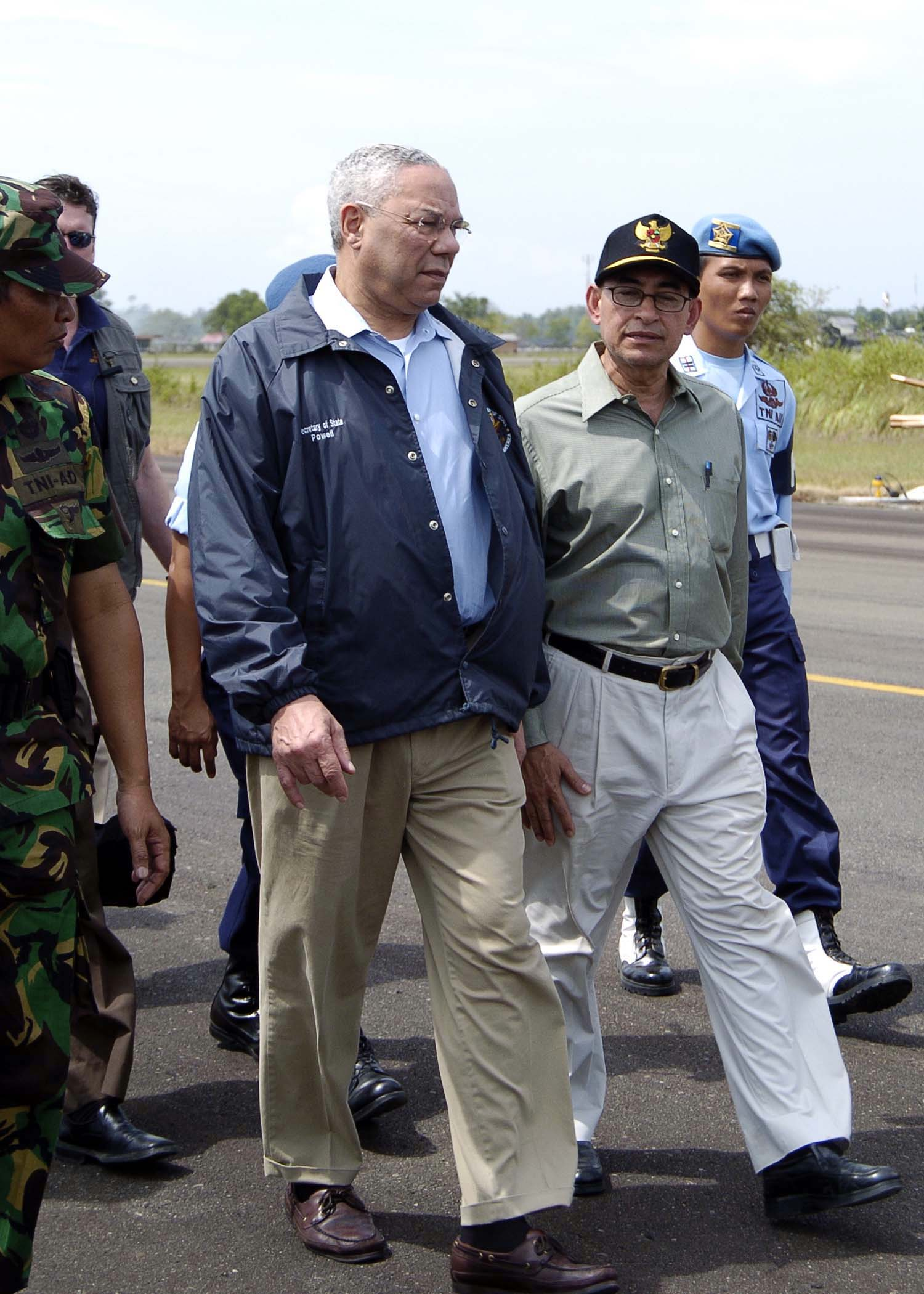 Aceh, Sumatra, Indonesia (Jan. 5, 2005) - Secretary of State Colin Powell walks with Indonesian Coordinating Minister for People's Welfare, Alwi Shihab, after departing his plane in Banda Aceh, Sumatra, Indonesia. Powell and Yudhoyono are meeting to discuss future U.S. aide to the area. Helicopters and aircraft assigned to Carrier Air Wing Two (CVW-2) and Sailors from Abraham Lincoln are supporting Operation Unified Assistance, the humanitarian operation effort in the wake of the Tsunami that struck South East Asia. The Abraham Lincoln Carrier Strike Group is currently operating in the Indian Ocean off the waters of Indonesia and Thailand. U.S Navy photo by Photographer's Mate 2nd Class Seth C. Peterson (RELEASED)